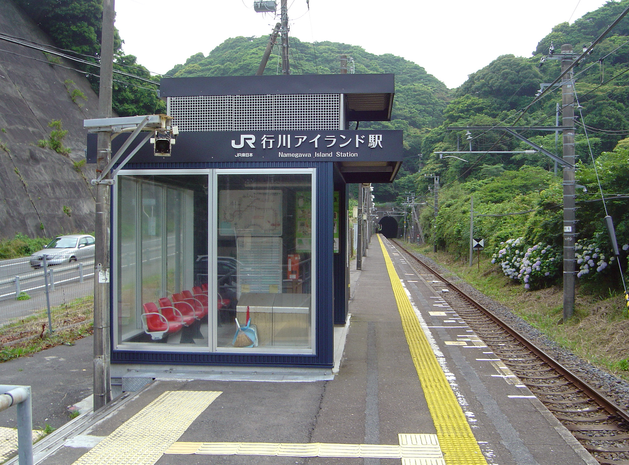 JR Sotobō-Line Namegawa-Island Station new waitingroom.